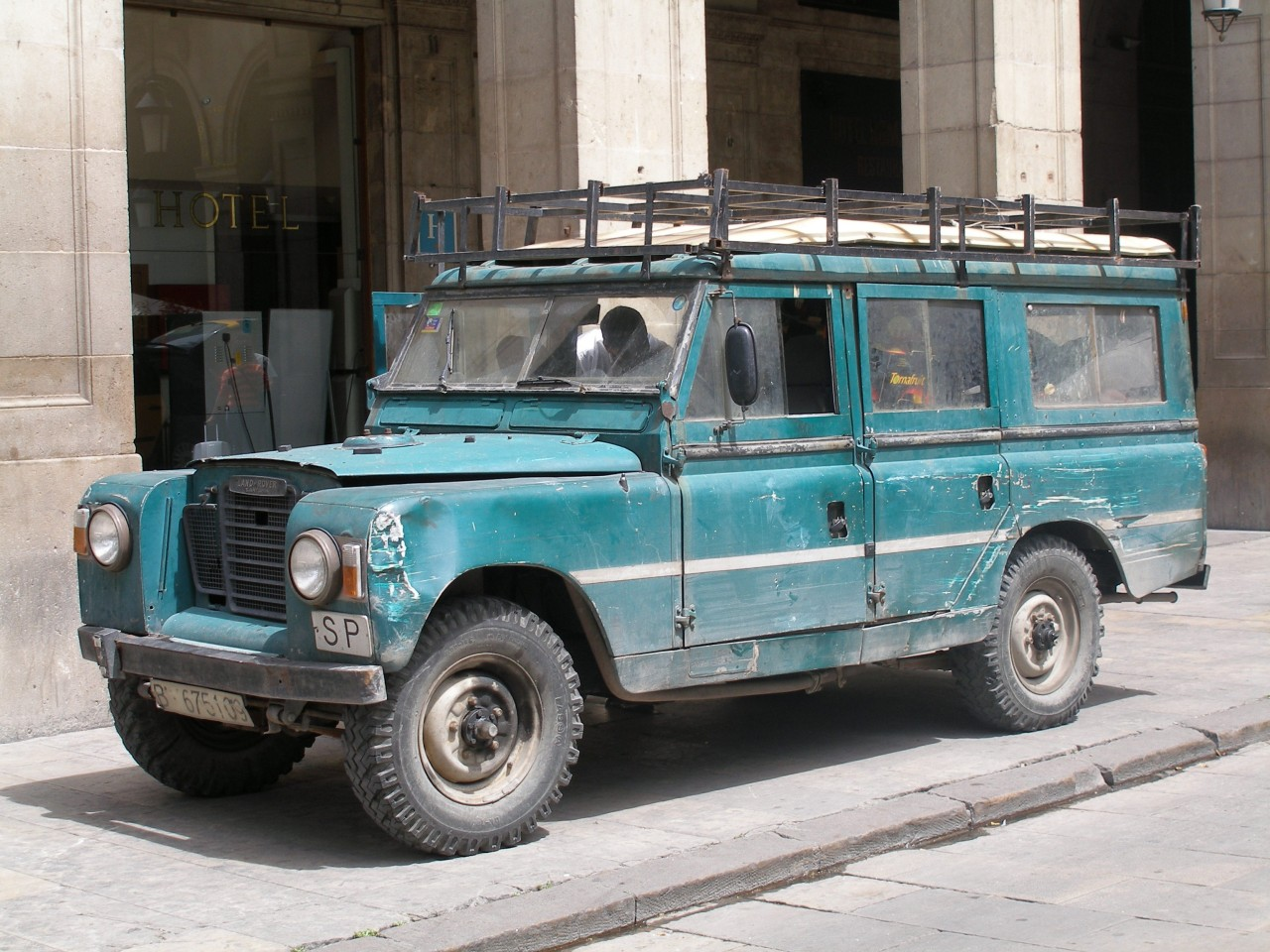 A Land Rover produced in Spain graced by the rich patina of time.